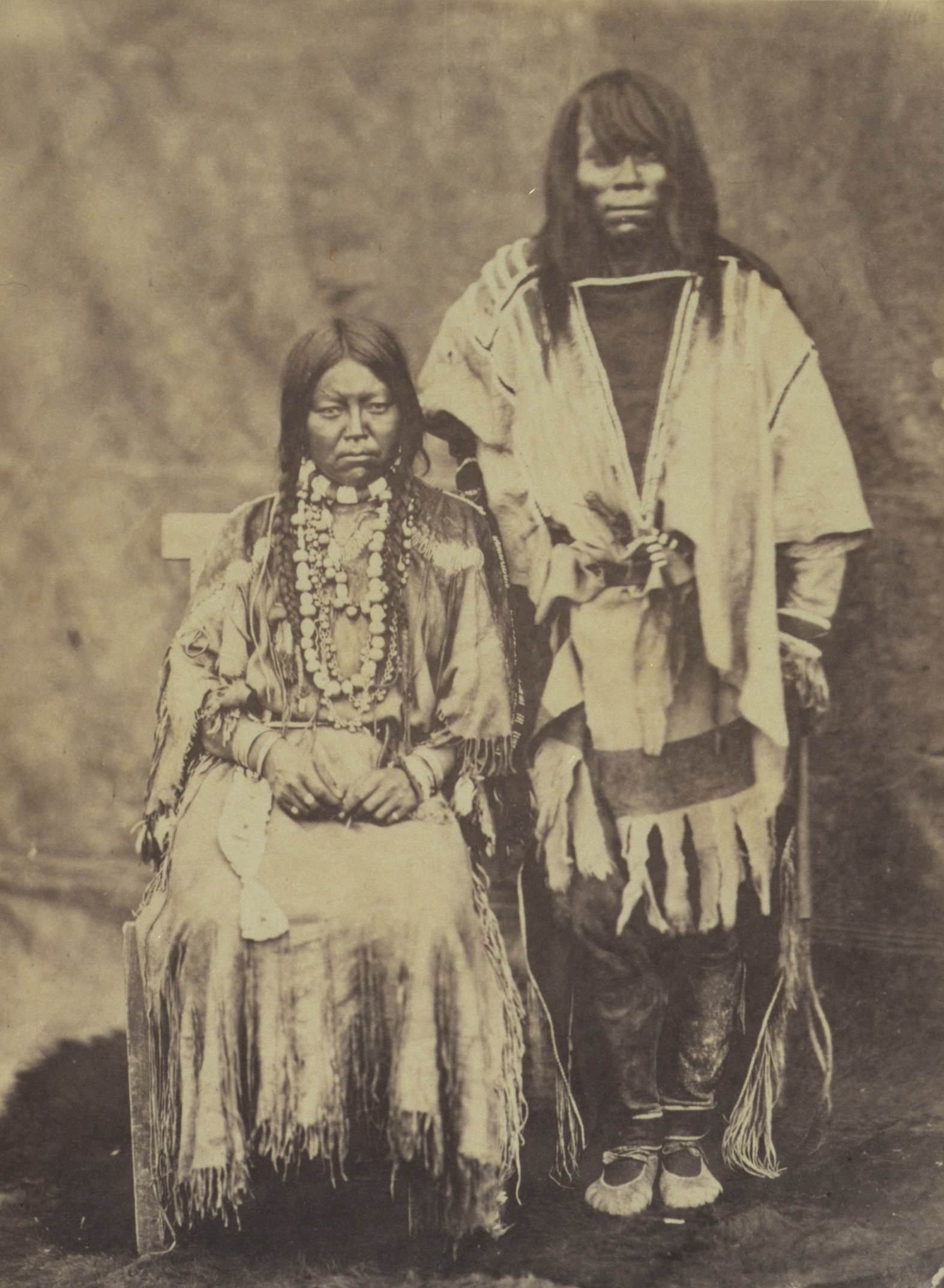 Title: Kalispel couple, full-length portrait, the man standing, the woman seated, facing front, wearing traditional dress Abstract/medium: 1 photographic print : albumen.